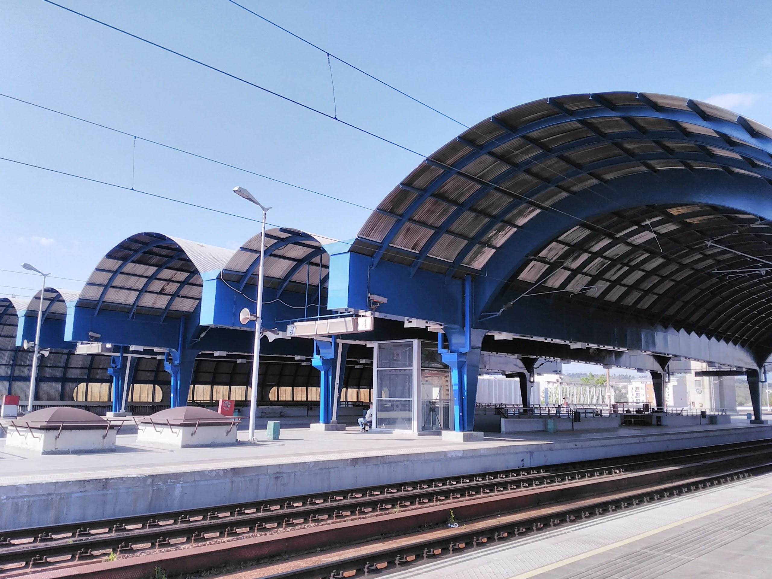 Skopje train station